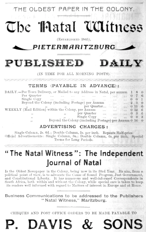 Advertisement for Natal Witness newspaper, Pietermaritzburg